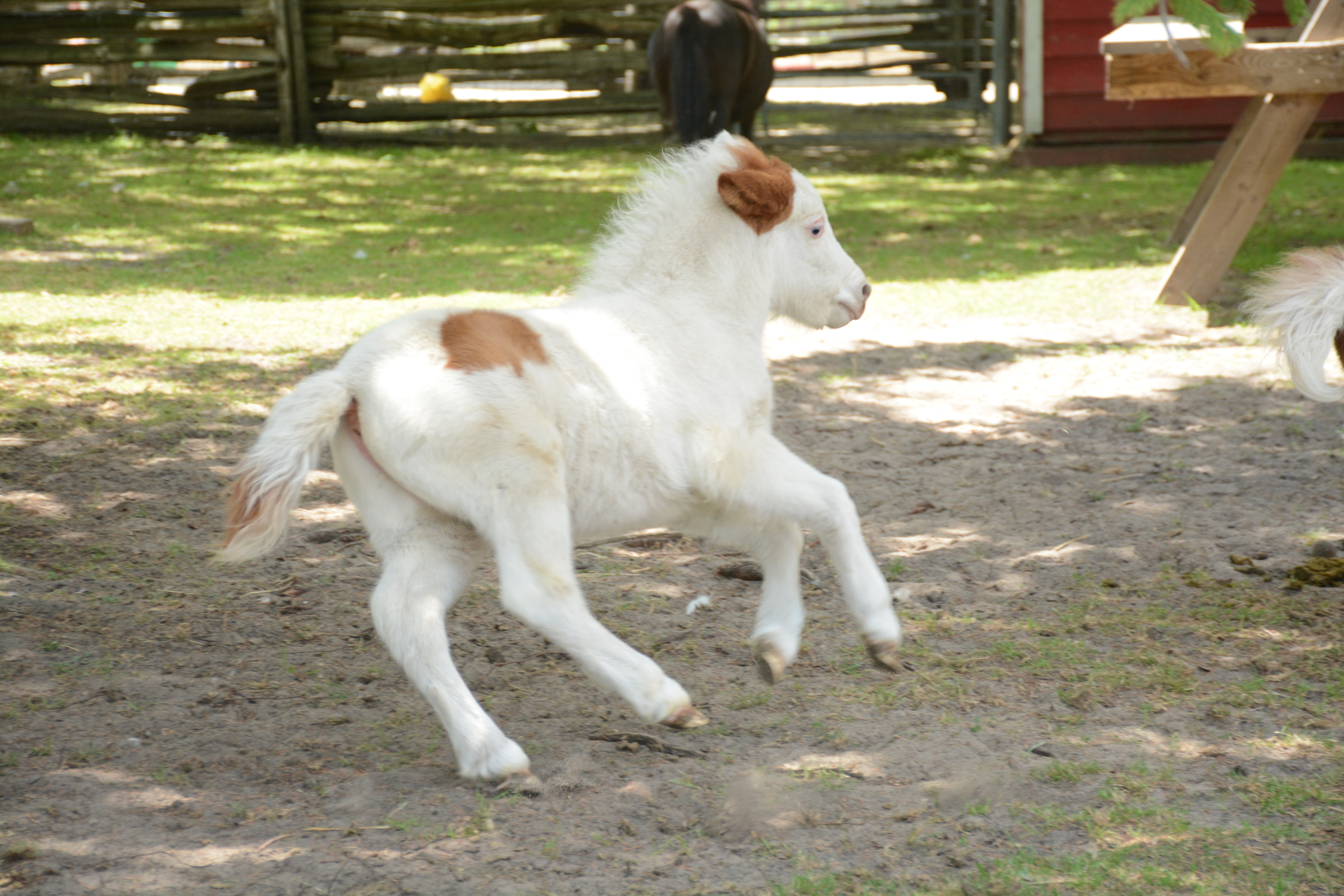 Pony horse